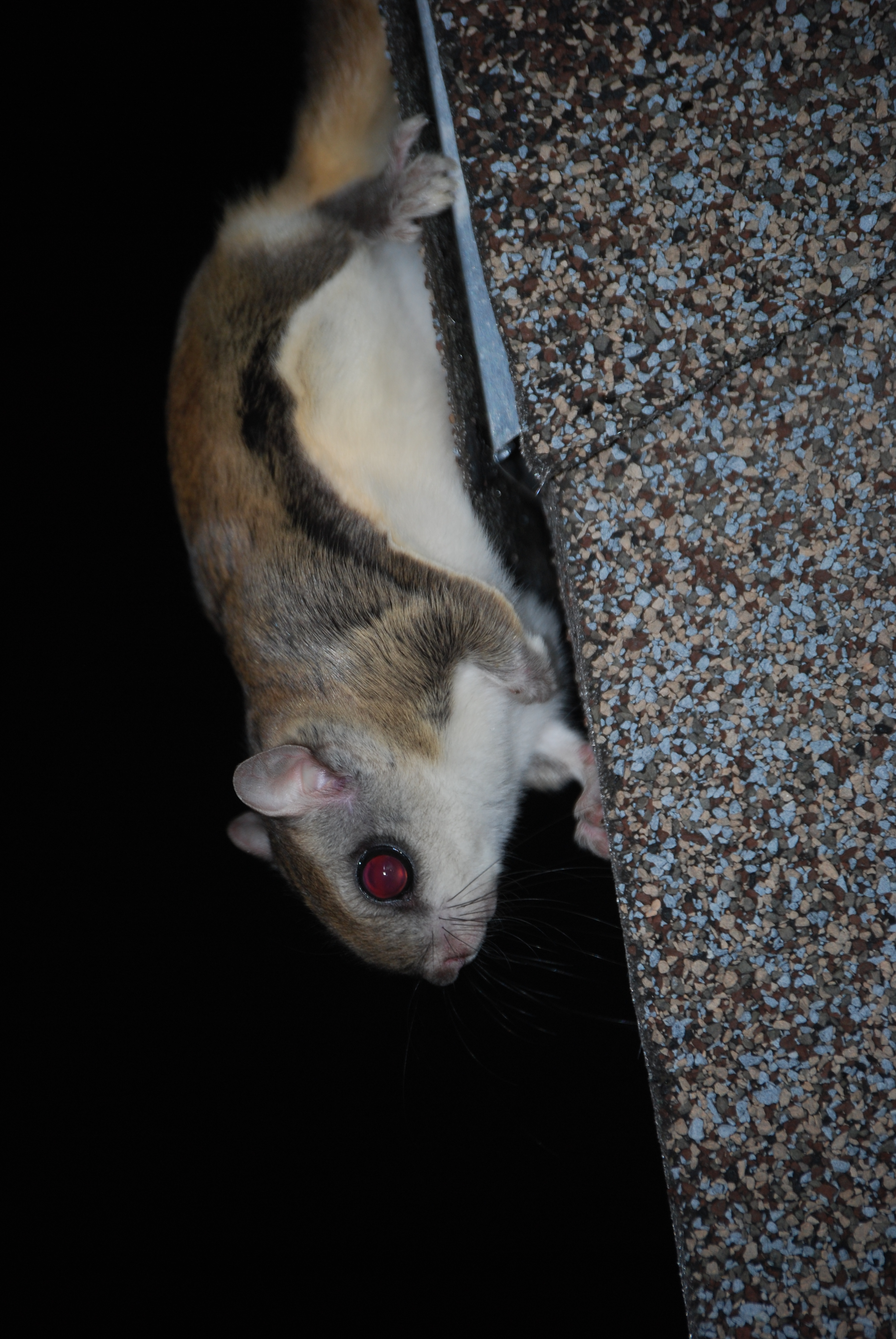 Southern Flying Squirrel (Glaucomys volans) climbs down roof. Madison, Wisconsin, USA.